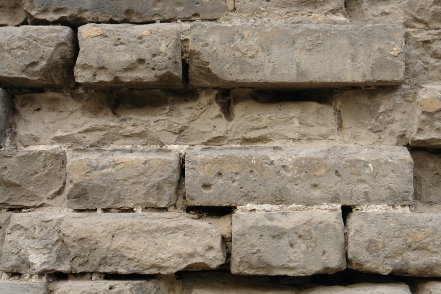 Ruins of the Beijing city wall built during the Ming Dynasty.